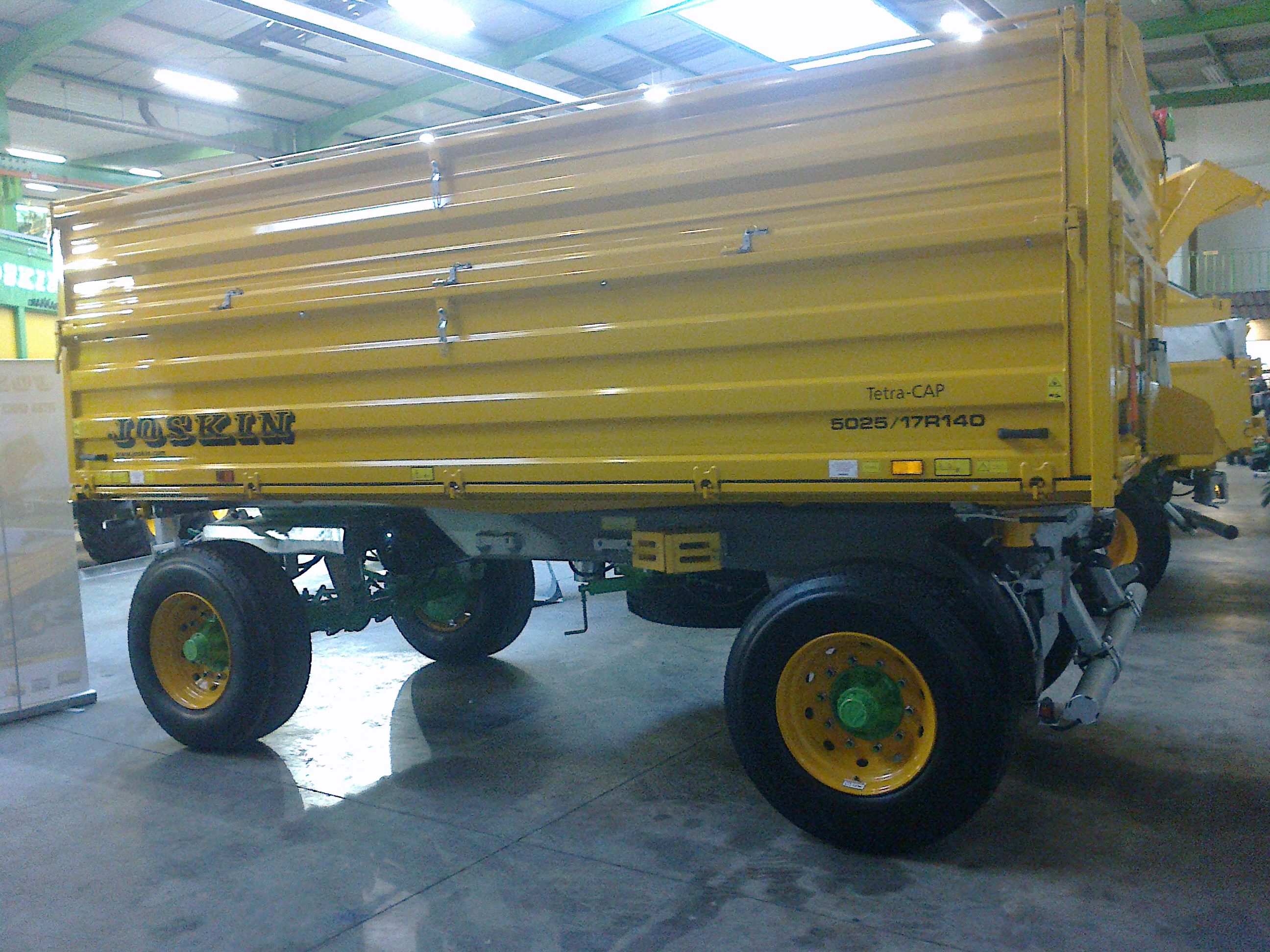 Joskin Tetra Cap trailer